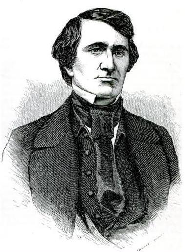 John R. Barret (Missouri Congressman)